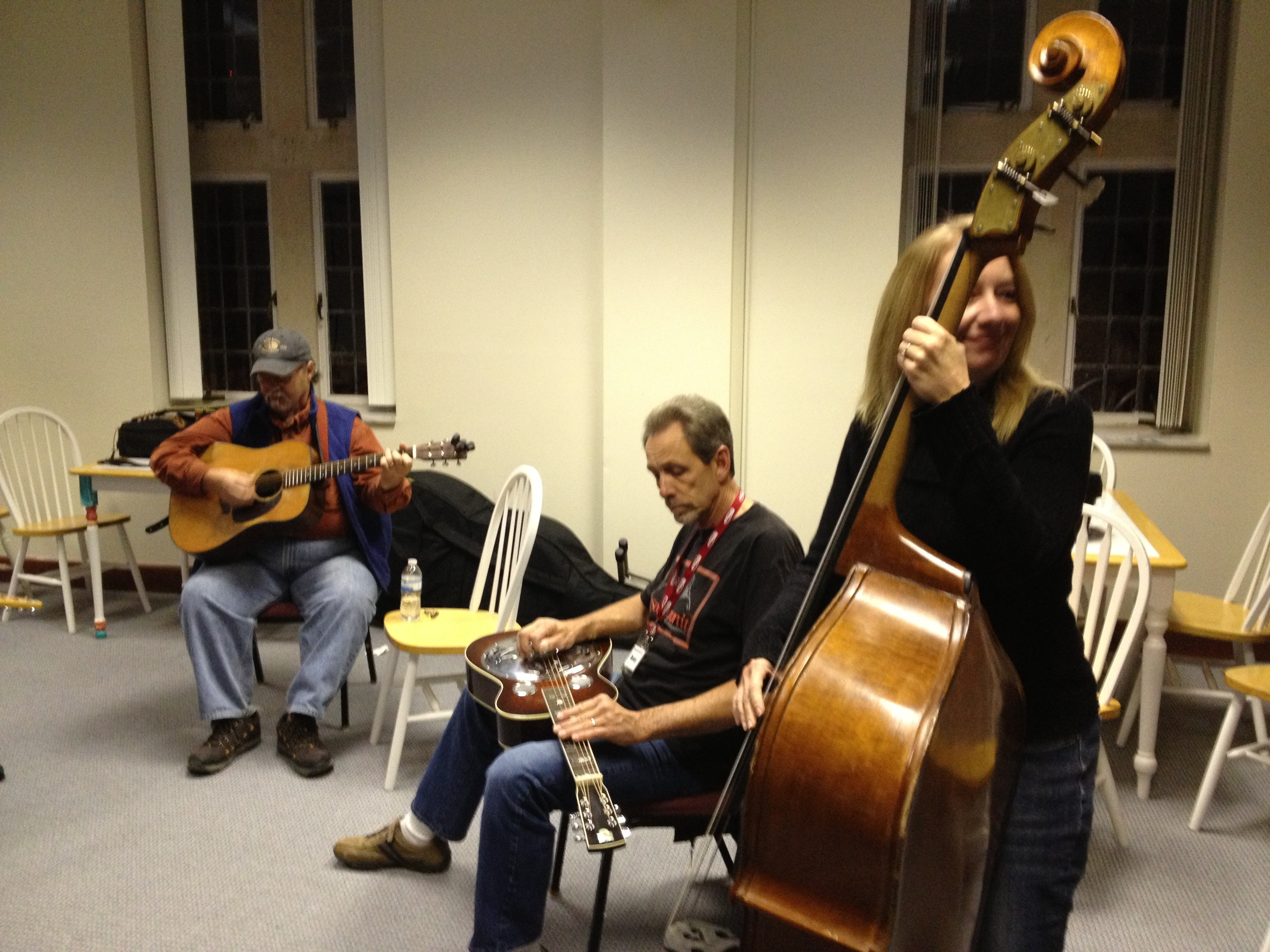 After hours jam session - ResoSummit 2012 (2012-11-10 23.07.17 by brad_bechtel) from Flickr album "Resosummit 2012" by brad_bechtel